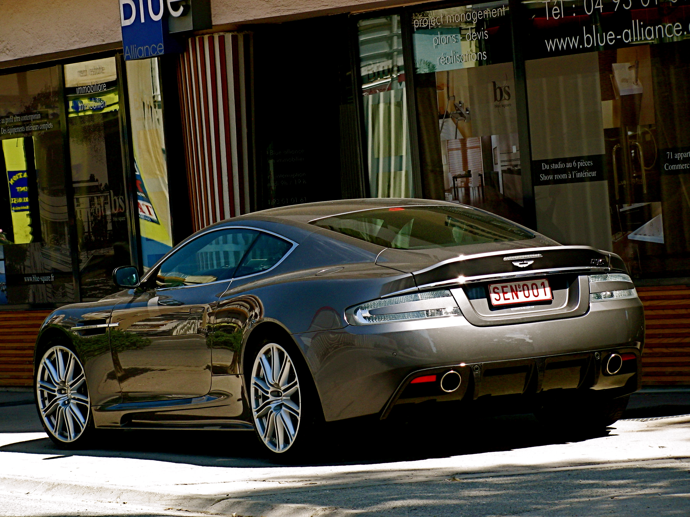 Aston MArtin DBS